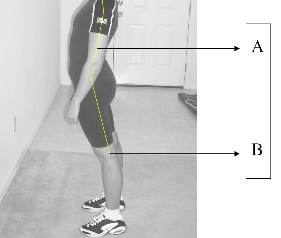 Lordosis. In a healthy posture, point A would be directly above point B.